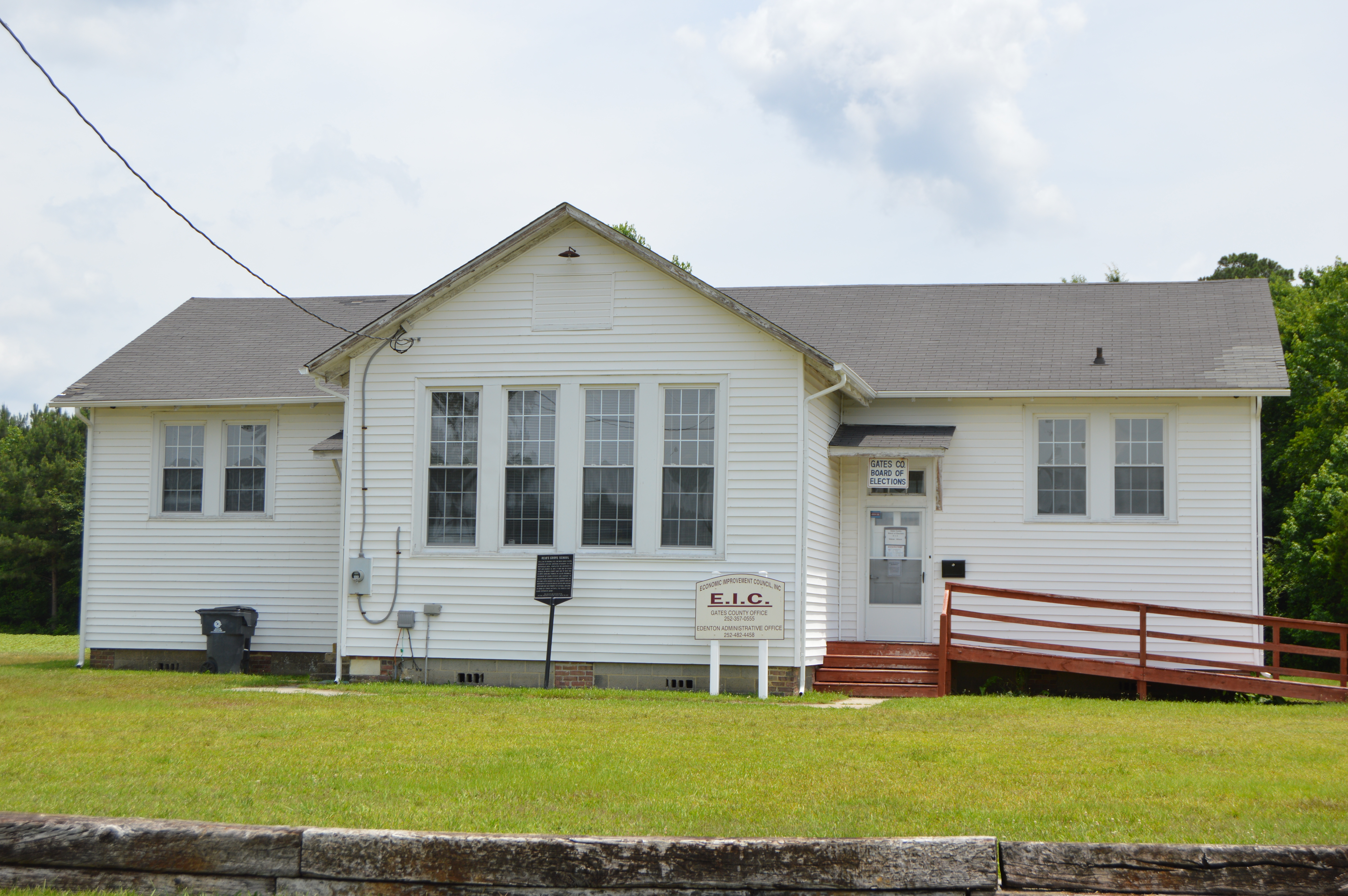 Front of Reid's Grove School, located on North Carolina Highway 37 just north of Gatesville in Gates County, North Carolina, United States. Built in 1927, it is listed on the National Register of Historic Places.